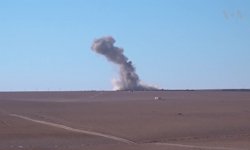 A US airstrike during the Northern Raqqa offensive (November 2016–present).